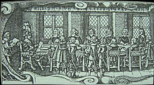 The 12-men King's Council (Rigsraadet/Rigsrådet) under King Christian IV, acting as supreme court.